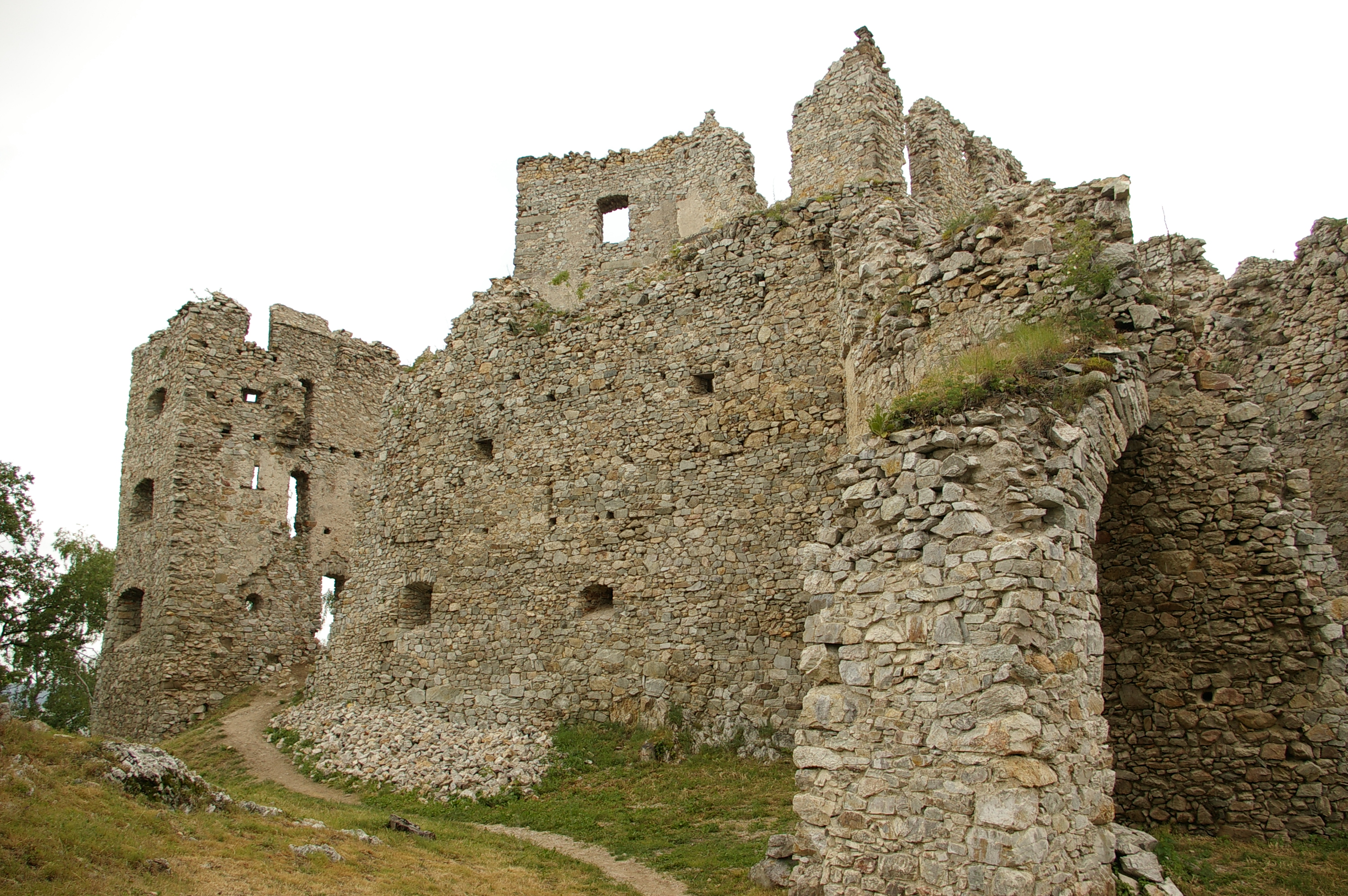 Hrušov Castle This medium shows the protected monument with the number 407-1539/1 in the Slovak Republic.